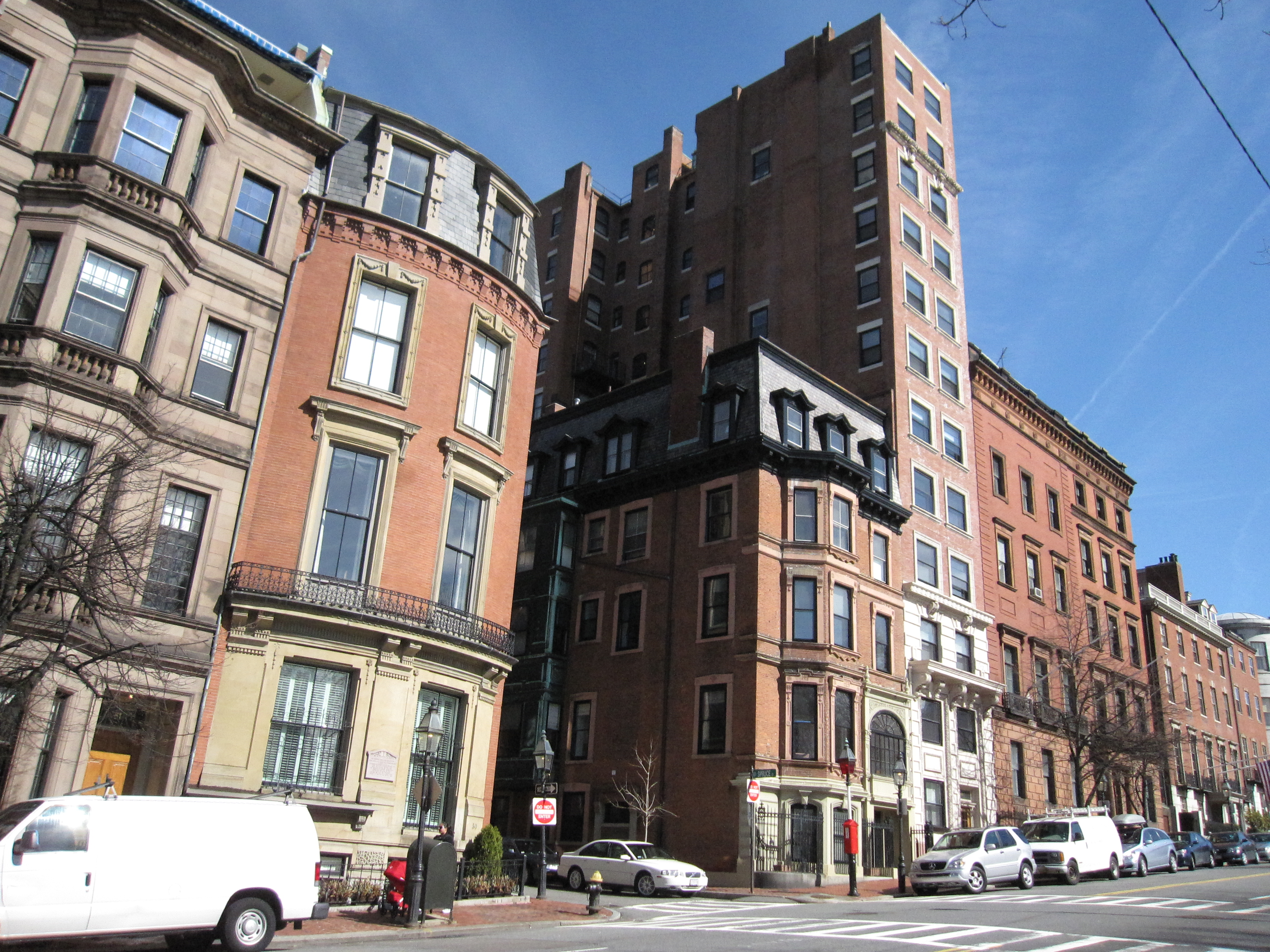 Boston, Massachusetts, March 2010